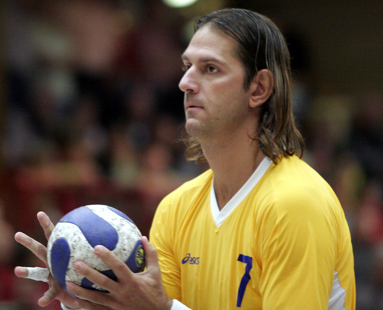 Mladen Bojinovic, Serbian handball player from Montpellier HB, during the Schlecker Cup 2007 in Ehingen (Germany)